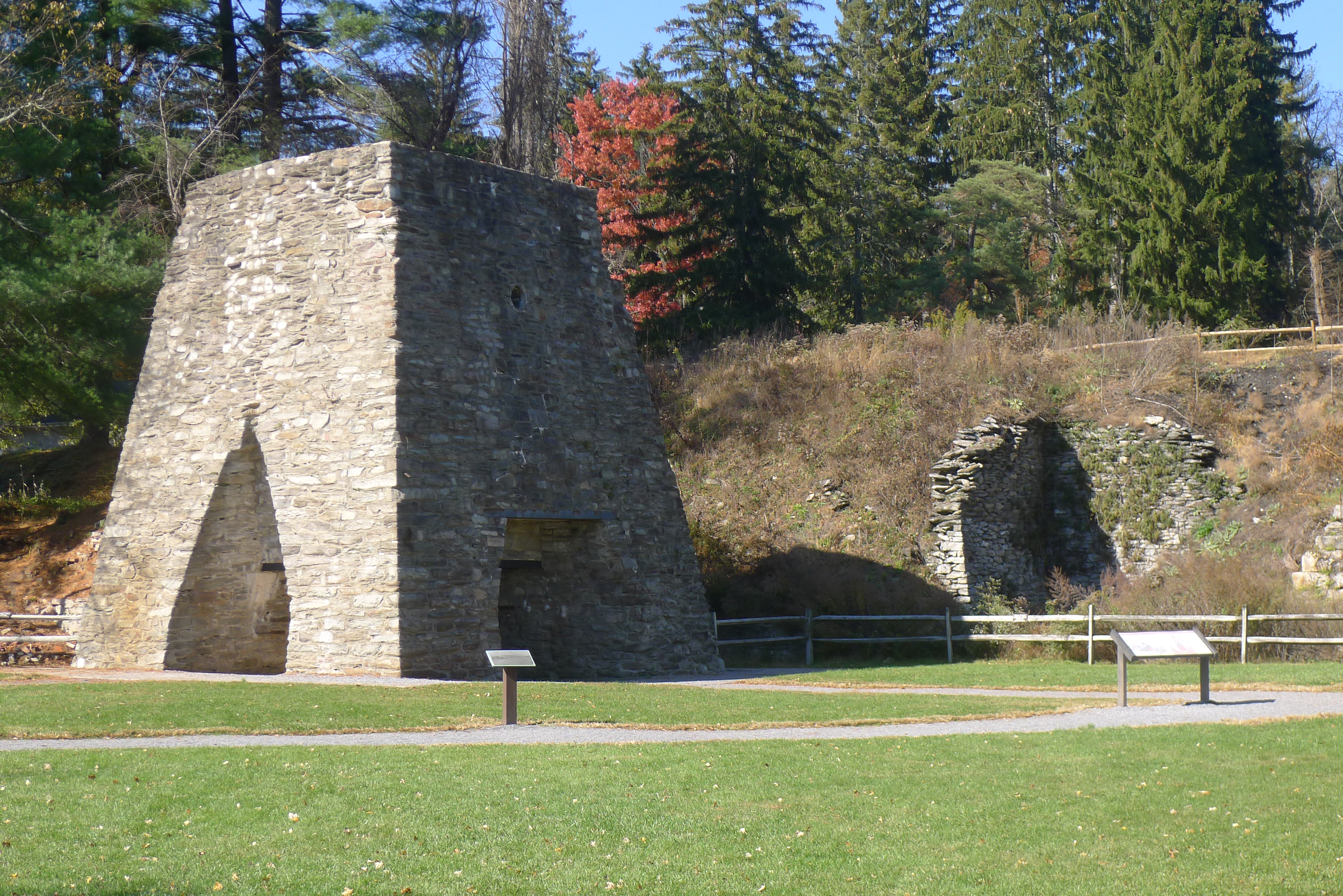 The Cumberland County Biker/Hiker Trail lies entirely within Pine Grove Furnace State Park once home to the Laurel Forge Iron Works.